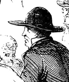 Person with Slouch hat